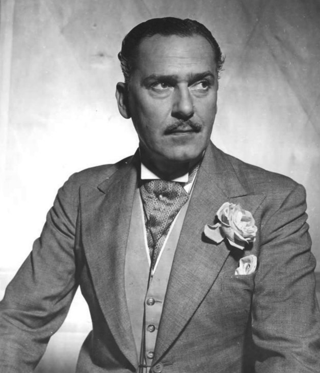 Photo of actor Arthur Margetson.